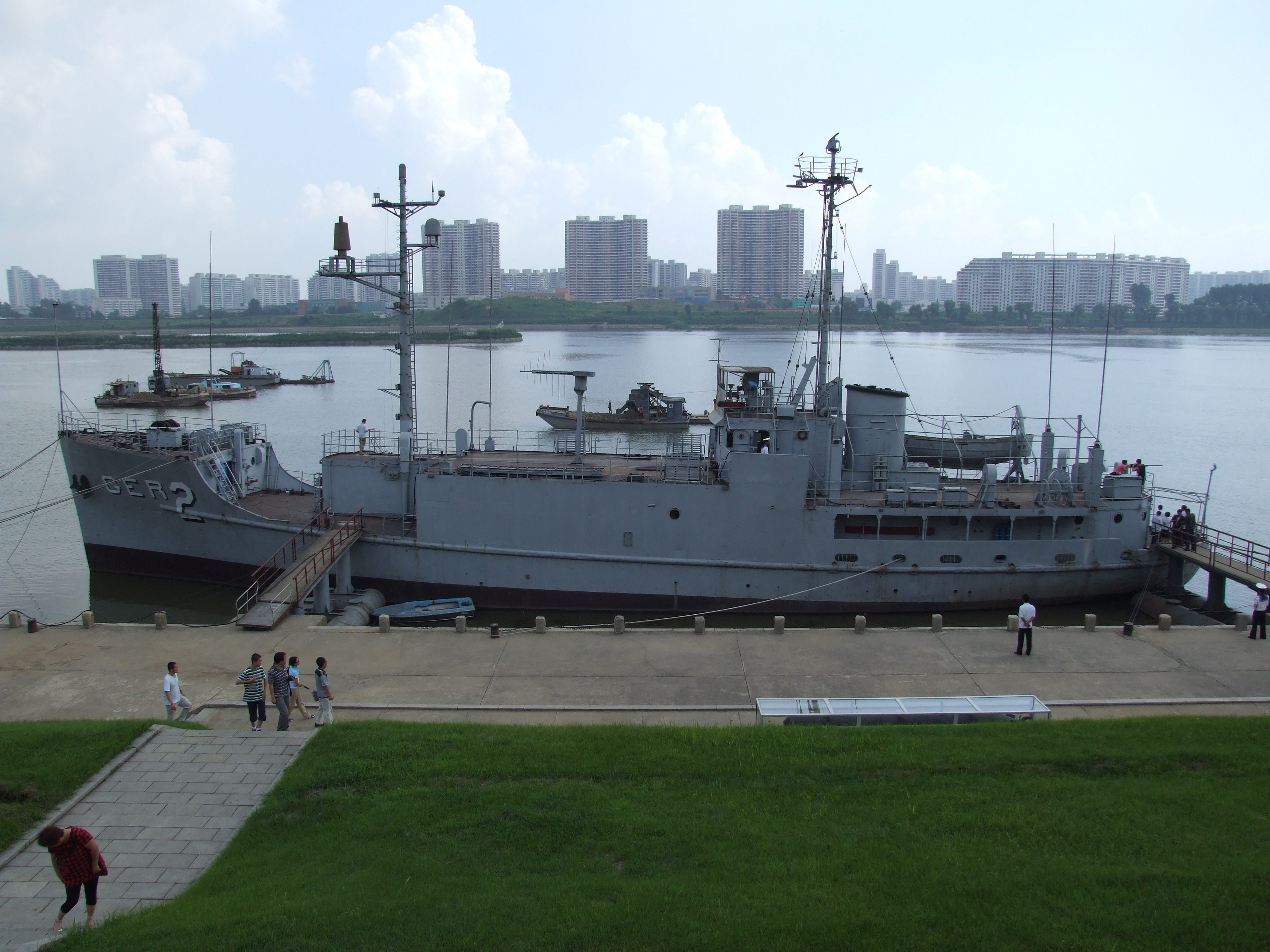 USS Pueblo (AGER-2) in Pyongyang, North Korea